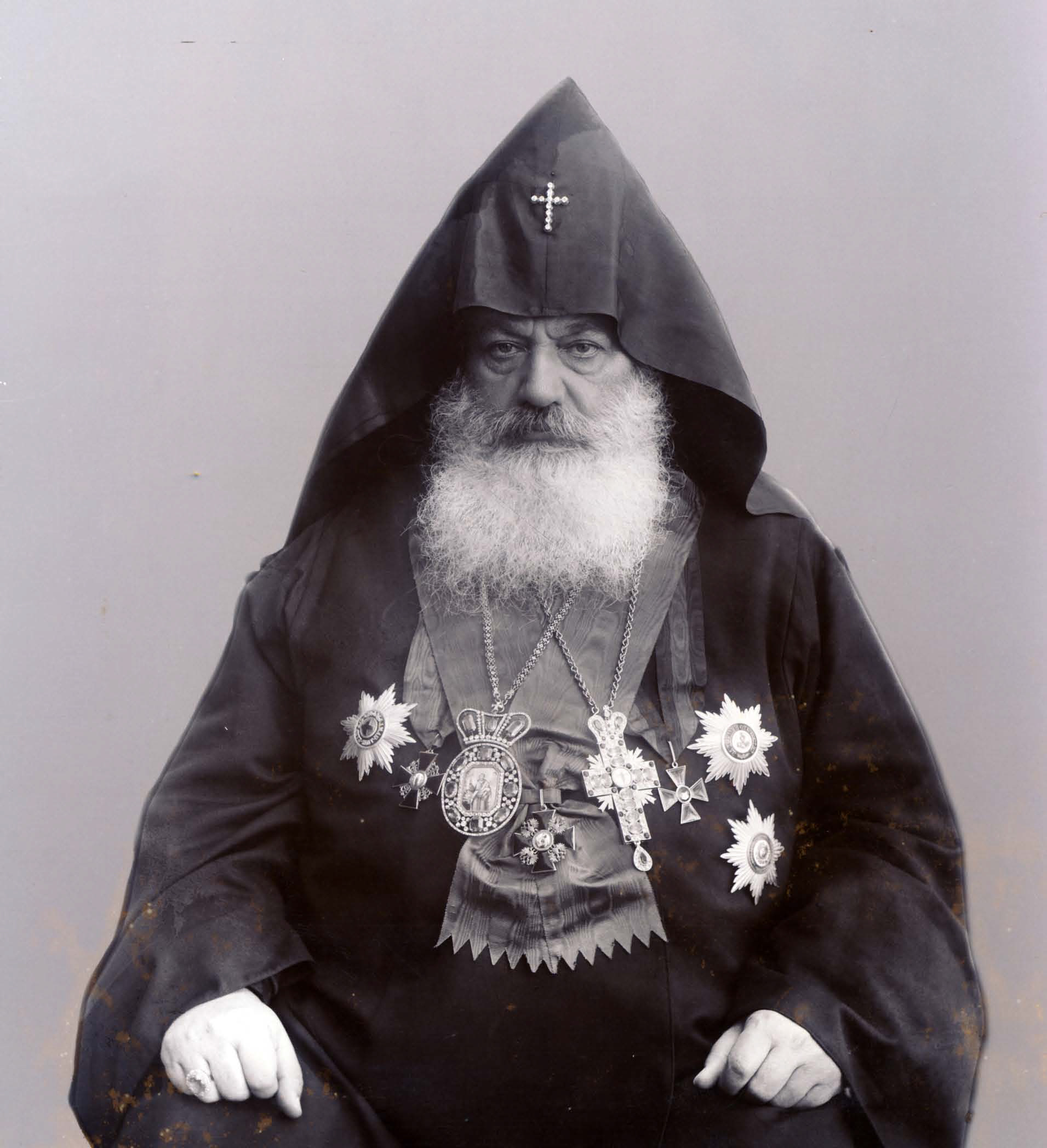 George V of Armenia (in Armenian Գևորգ Ե. Սուրենյանց (Տփղիսեցի) (born in Tbilisi on 28 August 1847 - died Etchmiadzin, Armenian Soviet Socialist Republic on 8 May 1930) was the Catholicos of All Armenians of the Armenian Apostolic Church in the Mother See of Holy Etchmiadzin from 1911–1930 following Catholicos Matthew II (in Armenian Մատթեոս Բ Կոստանդնուպոլսեց) who had died on 11 December 1910 after less than three years as Catholicos.